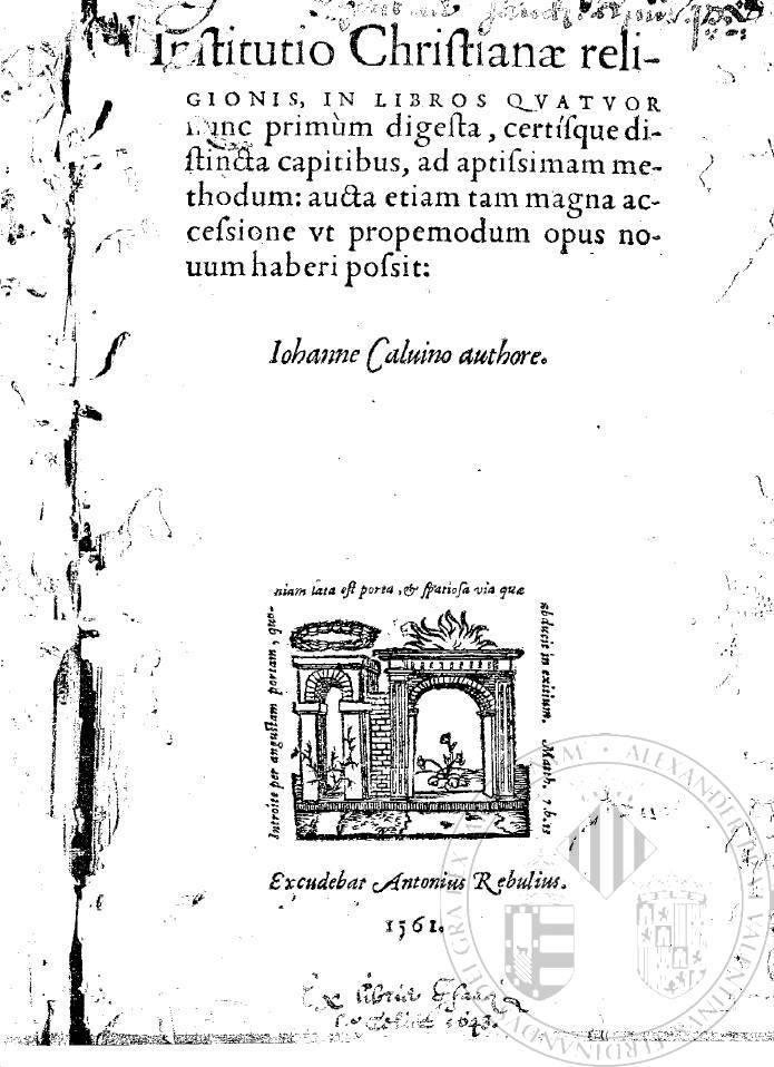 Title page of Institutio Christianae Religionis by John Calvin